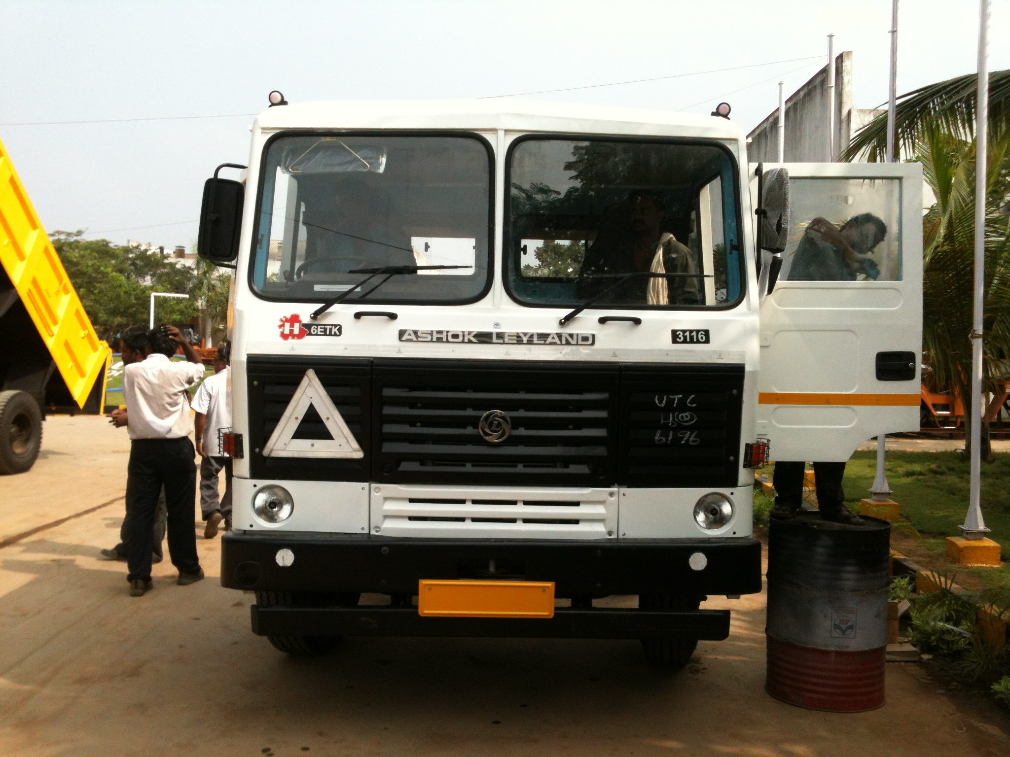 Ashok Leyland G45 Cab on a 3116 Platform.